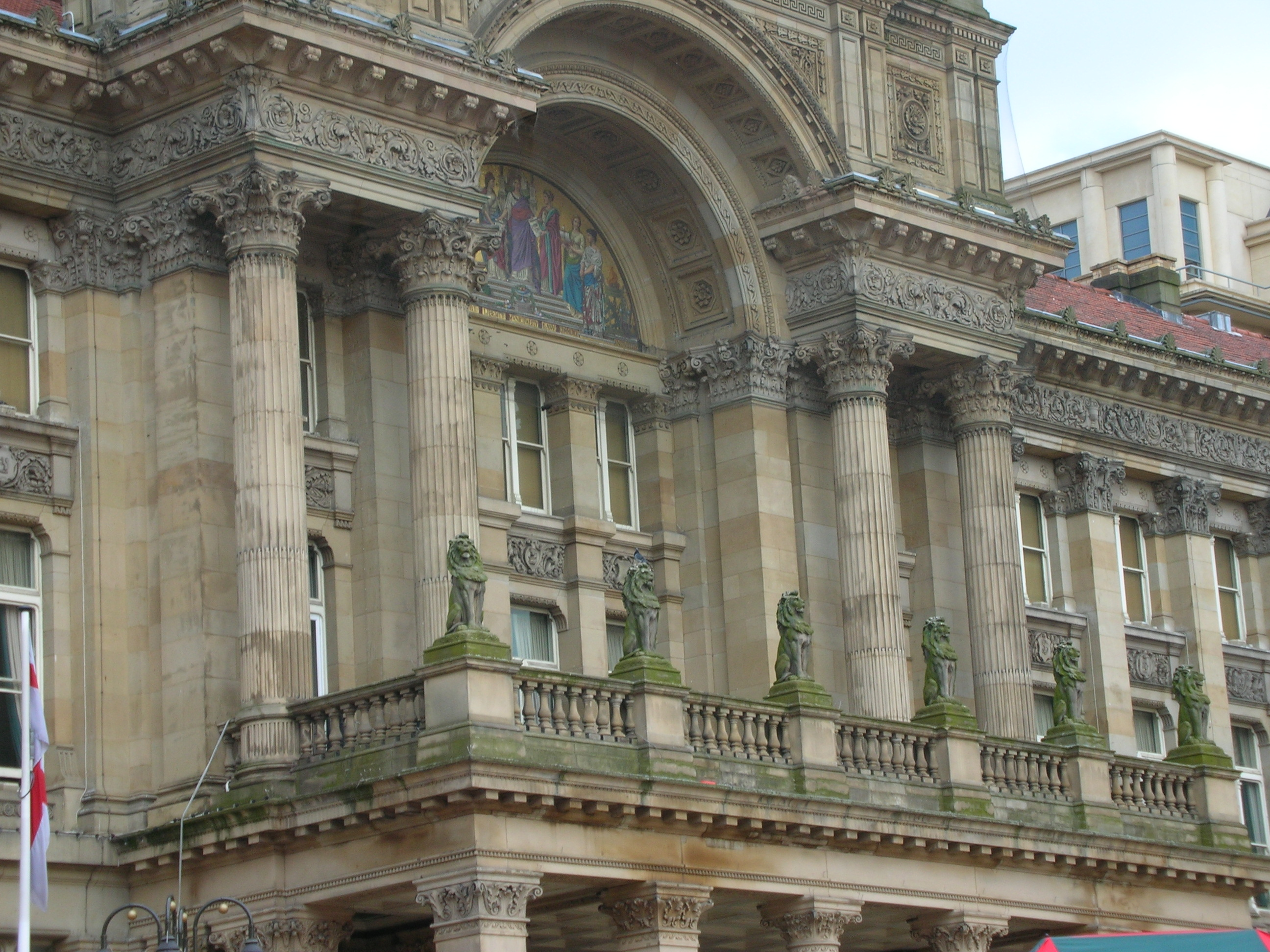 Birmingham Council House - detail above main entrance in Victoria Square, Birmingham, England.